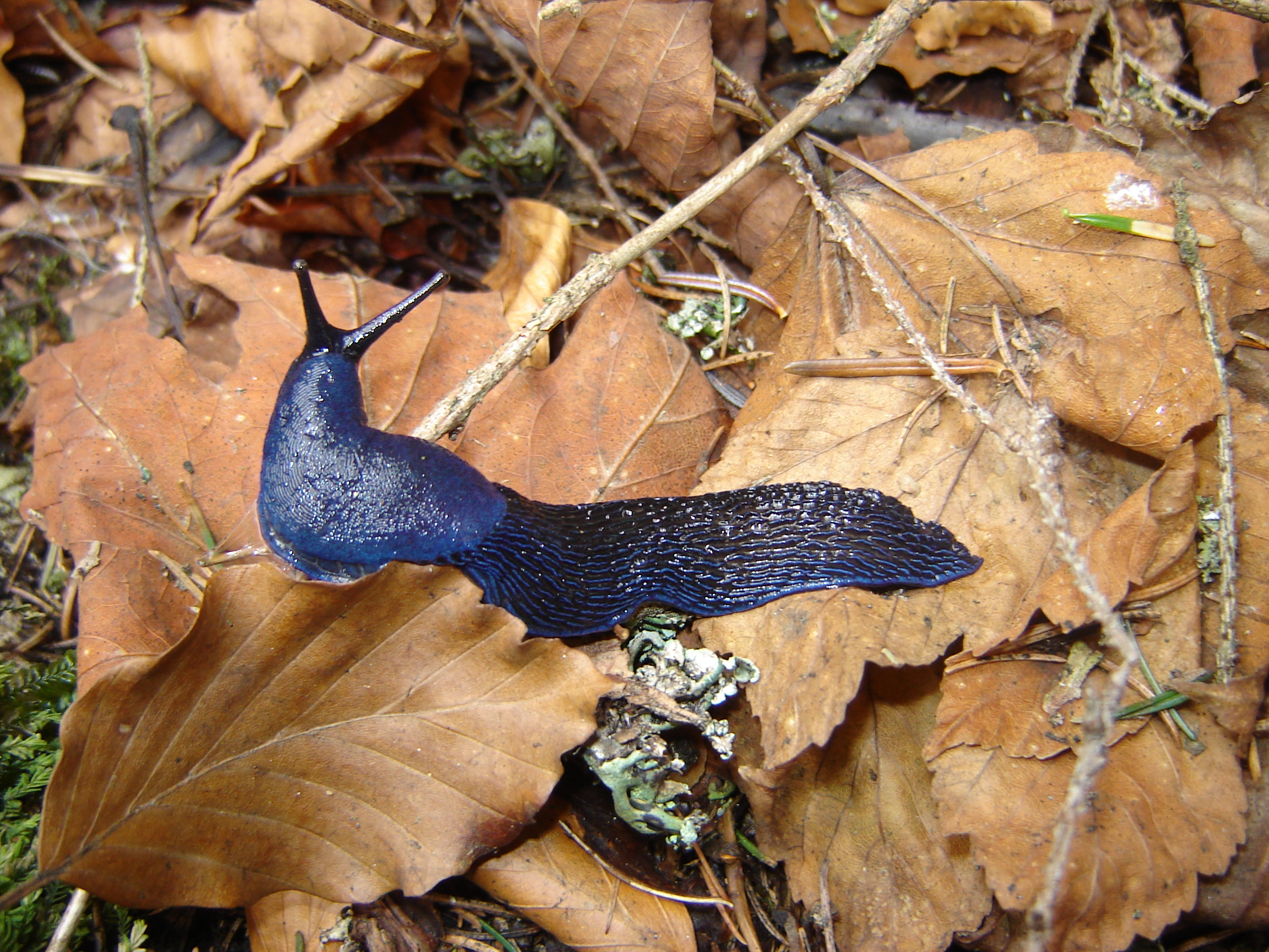 Bielzia coerulans on dry leaves